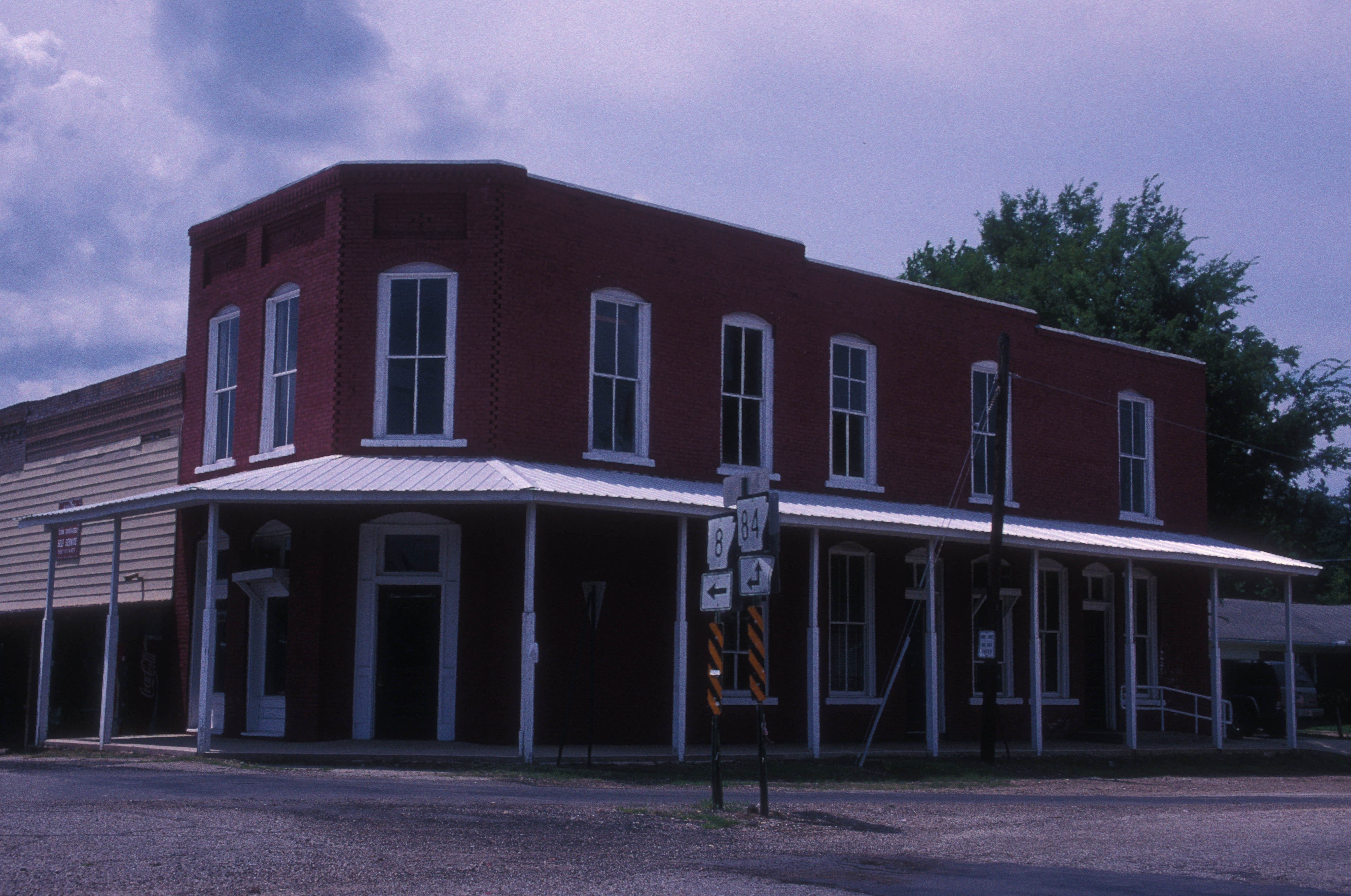 OLD BANK BUILDING ON THE SQUARE IN AMITY DATES FROM 1906-1907